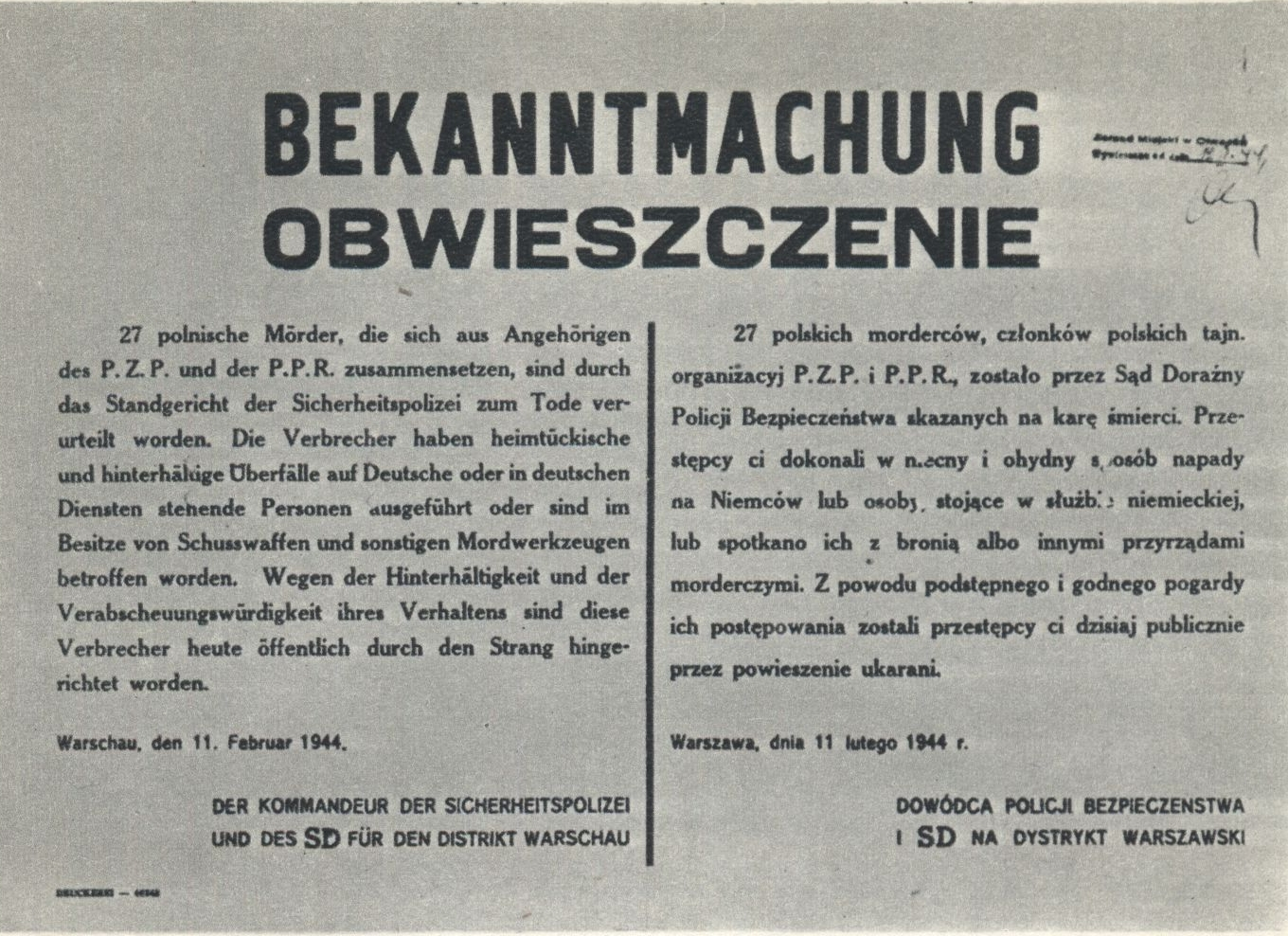 German announcement in occupied Poland (dated 11th February 1944), signed by Commandant of SD and Sicherheitspolizei in Warsaw – SS-Obersturmbannführer Ludwig Hahn, informing about the hanging of 27 Polish hostages in Warsaw (as a reprisal for actions of Polish resistance movement).